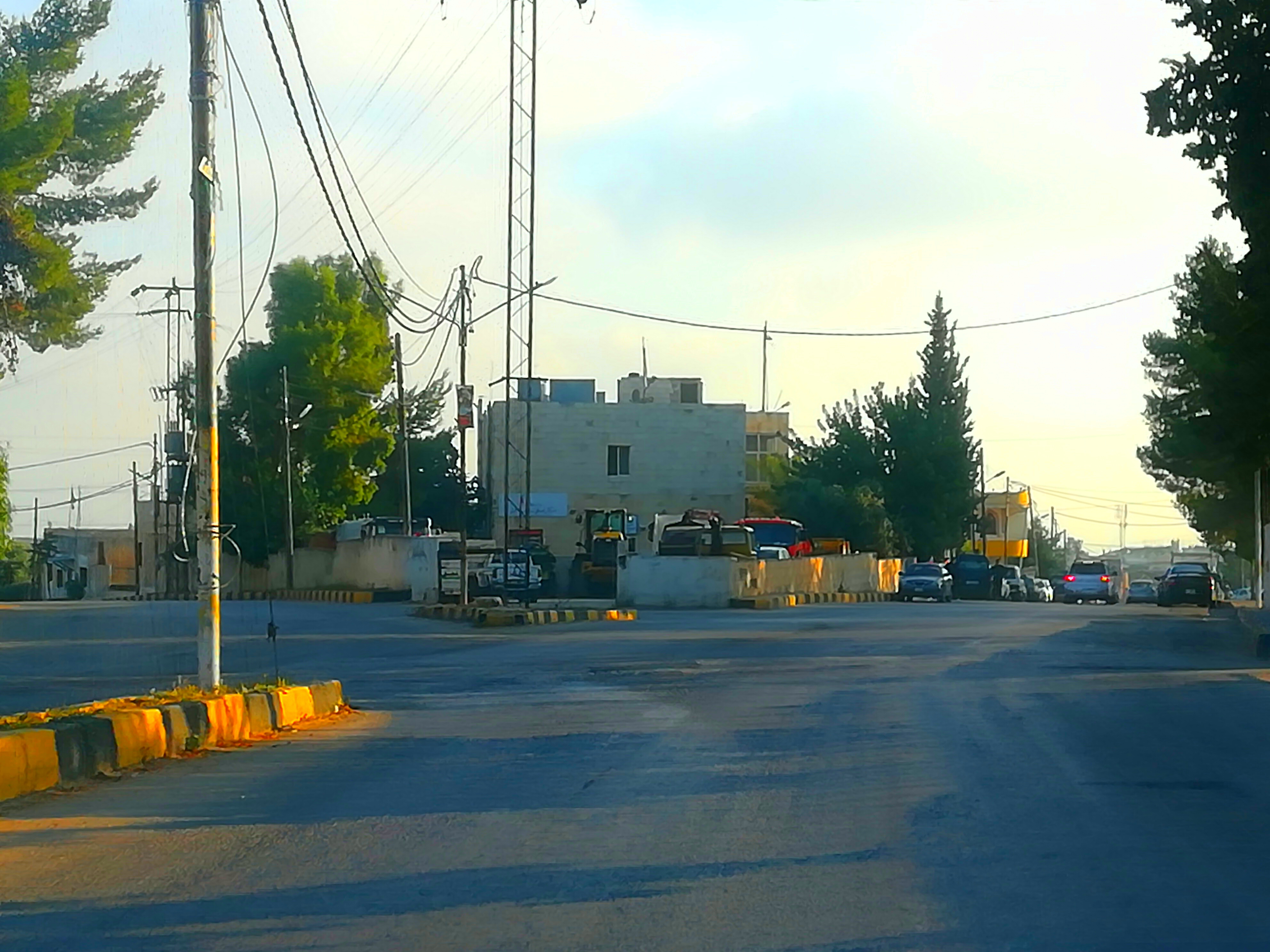 Malka village in northern Jordan